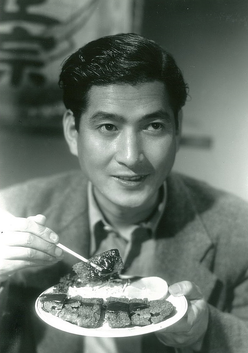 Shūji Sano in Tonkatsu taishō (とんかつ大将) directed by Yūzō Kawashima - 1952